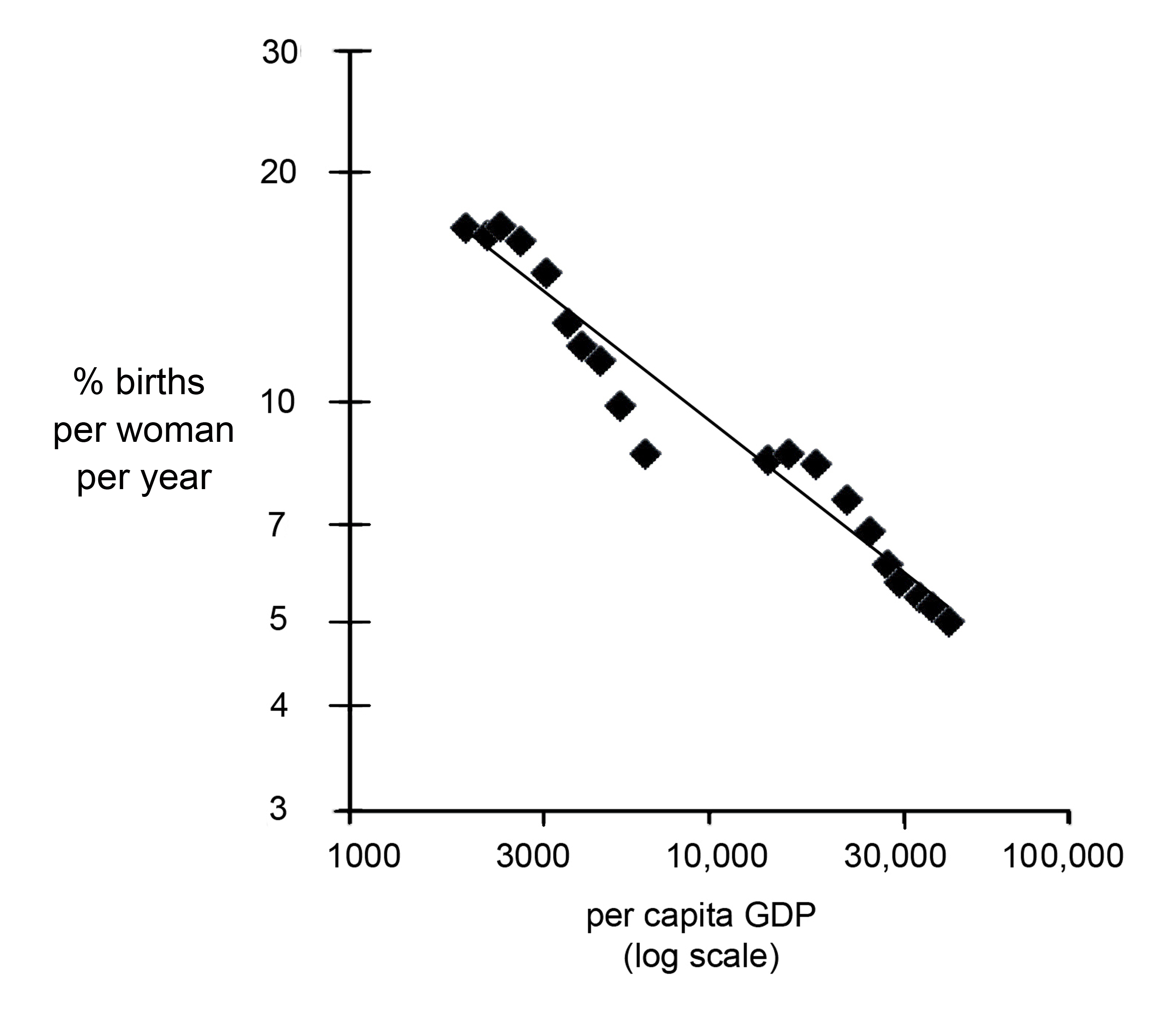 From Warren Hays ; Huge UN and OECD datasets show the strong inverse power relationship between prosperity and fertility.